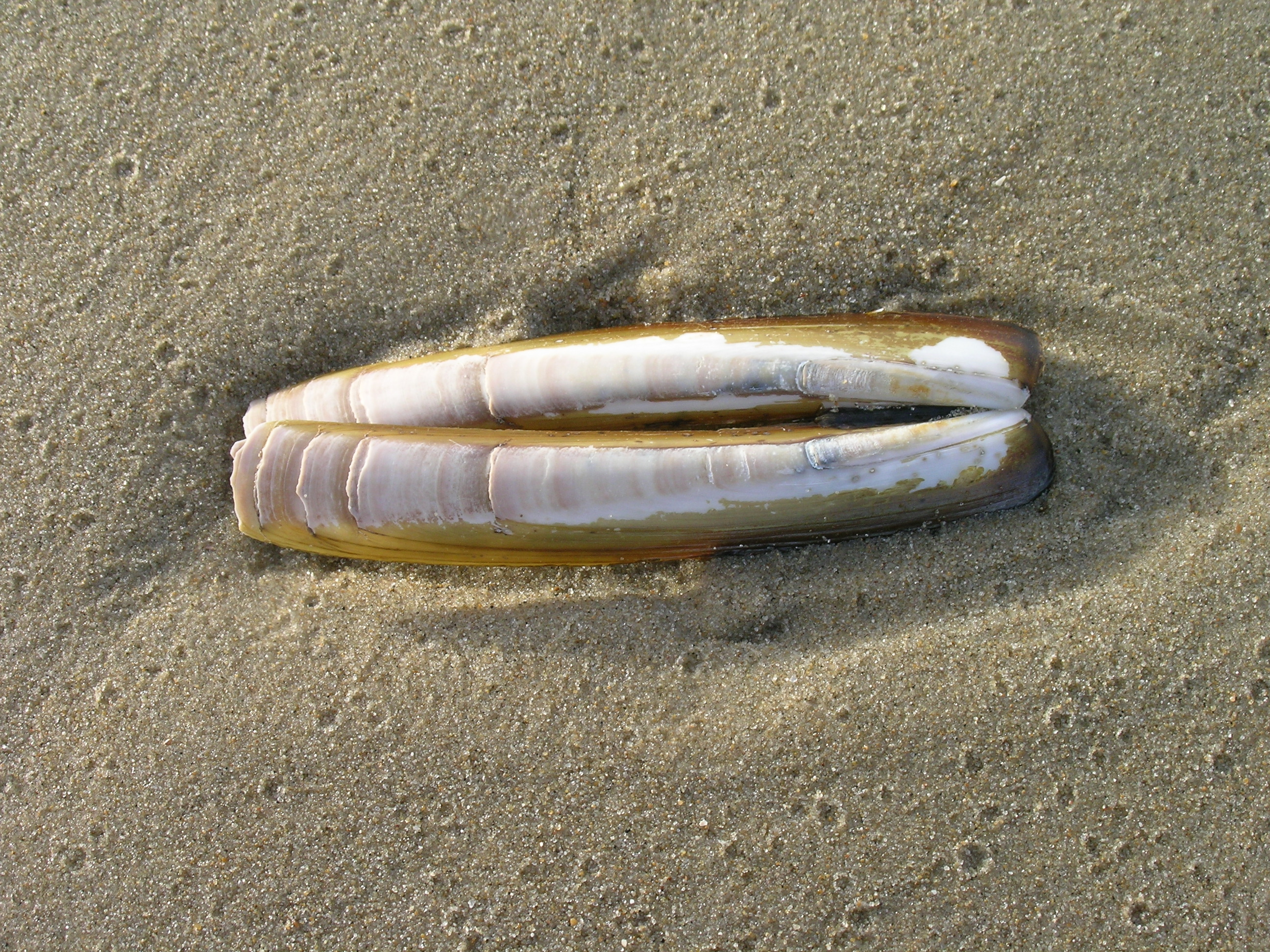 Atlantic jackknife clam (Ensis directus)